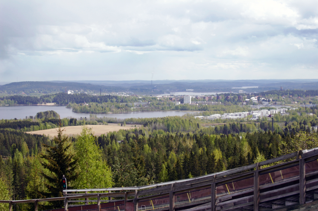 Jyväskylä (Finland) viewed from top of the ski-jumping tower. The tower is named after famous ski jumper Matti Nykänen. or